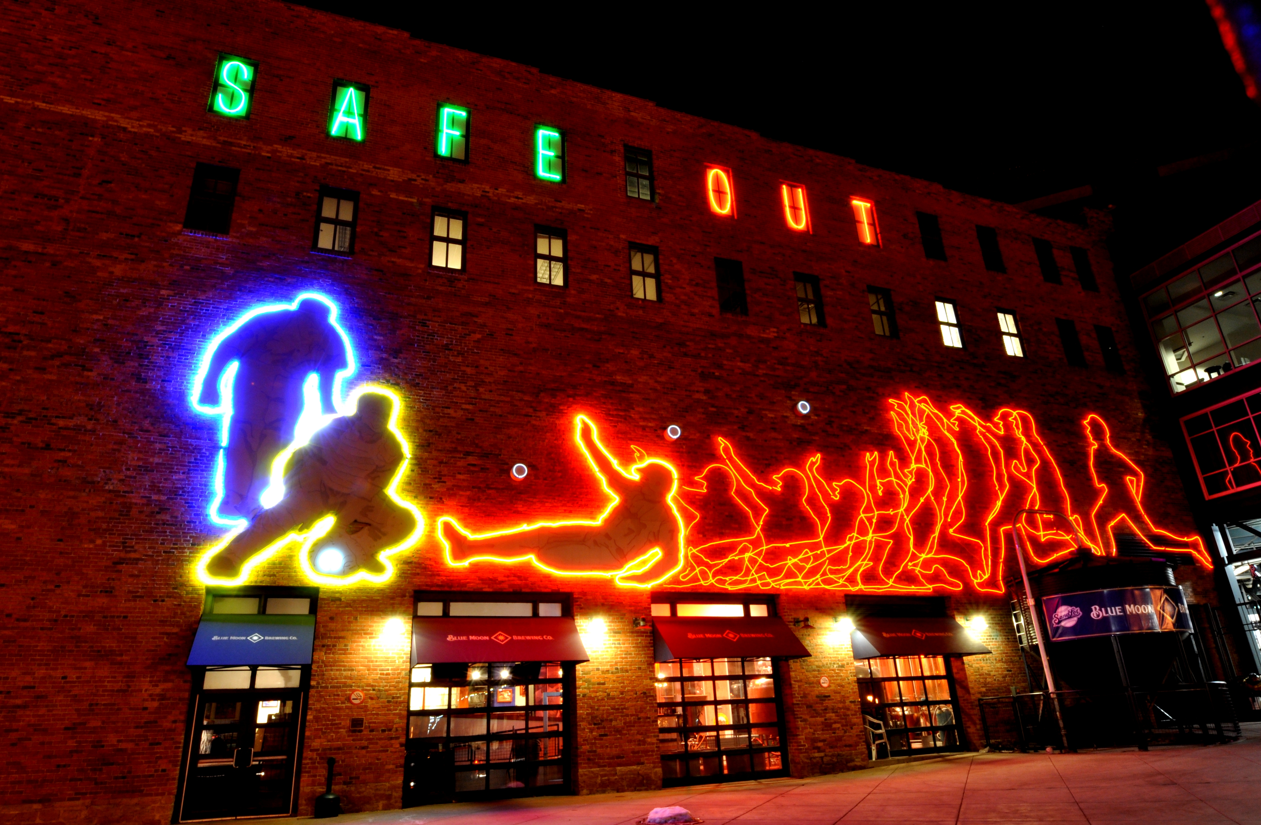 Extended exposure of Neon lights on north-east Corner of Coors Field in Denver Colorado.